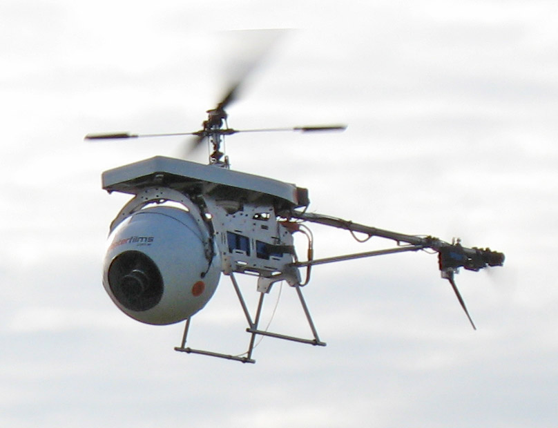 Helicóptero de filmación radiocontrolado de tamaño 800 eléctrico con soporte de cámara triaxial.